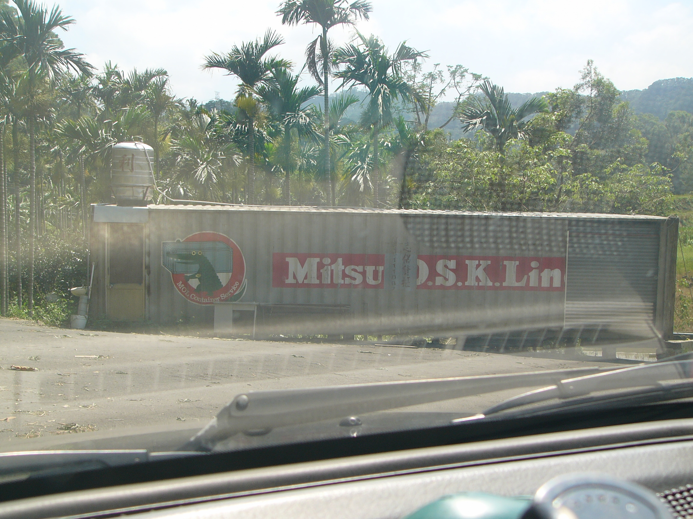 A Mitsui OSK Lines container. Its logo is a crocodile carrying a container. The container in this picture has been modified as a stockroom. Photo by Ellery Cheng at San-yi, Miao-li county, Taiwan.